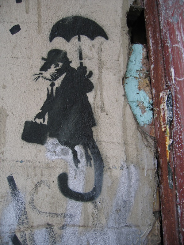 Gentleman rat